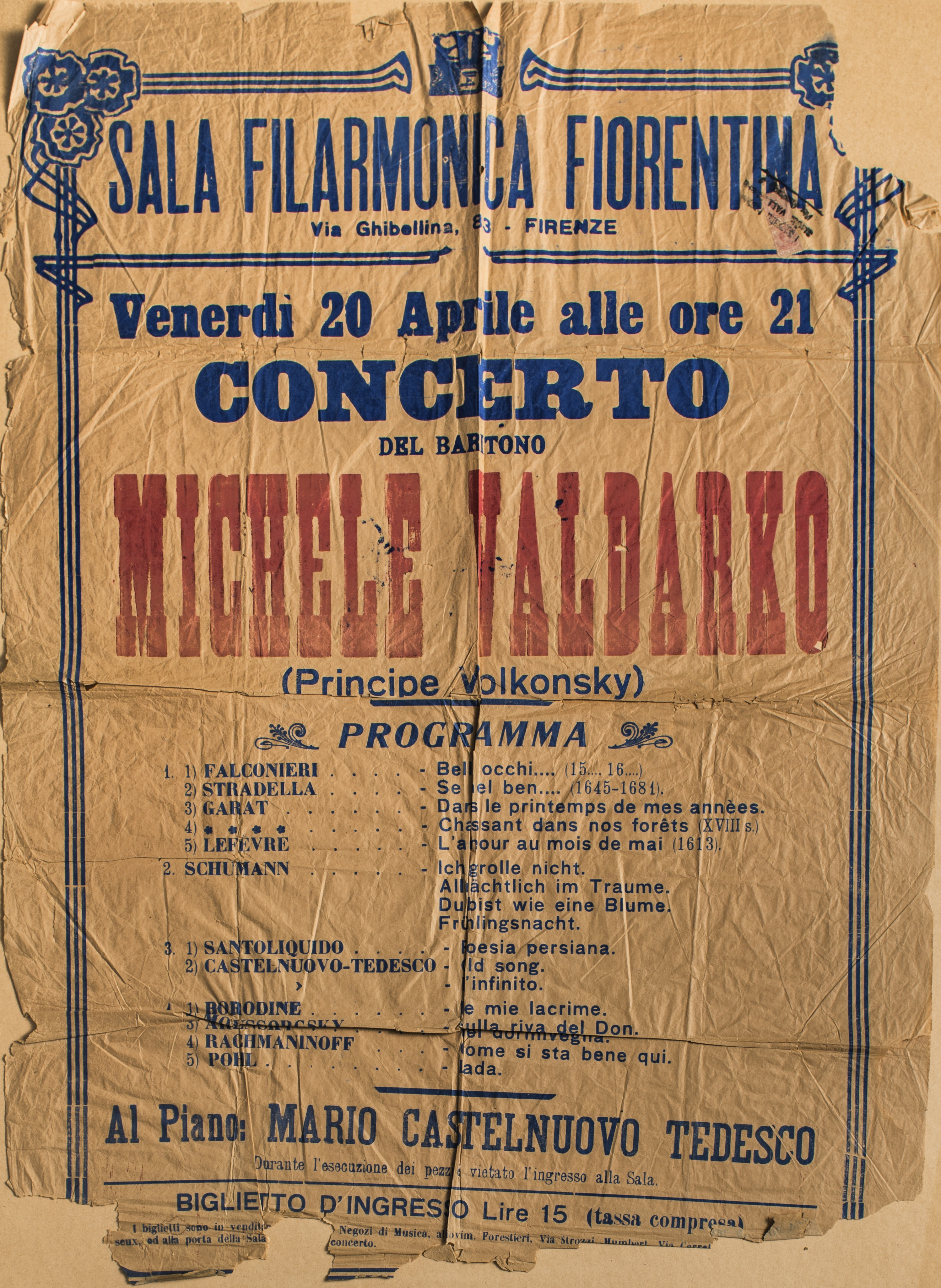 Concert announcement of Mikhail Volkonsky from 1928